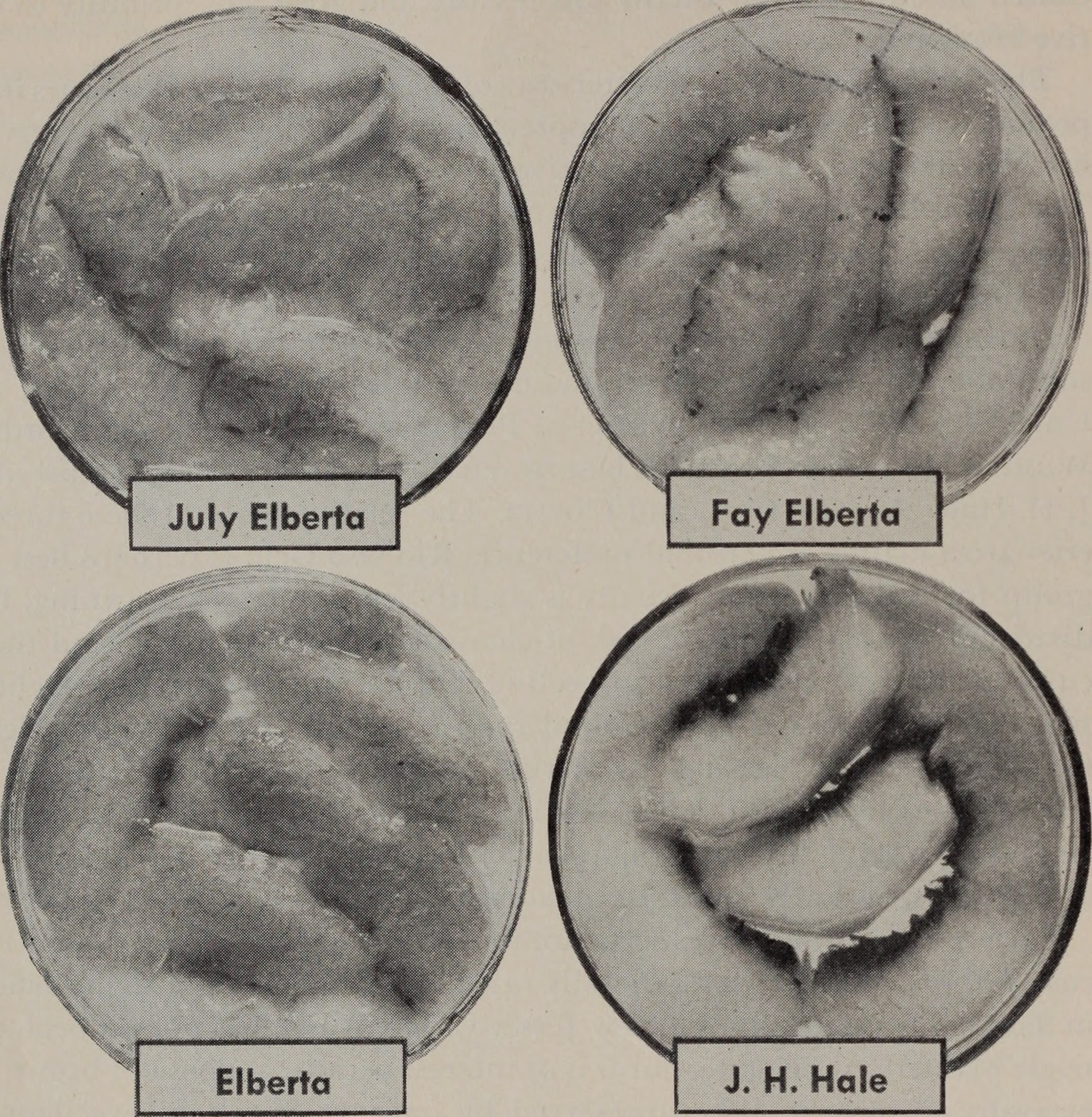 Title: The commercial freezing of fruit products Year: 1948 (1940s) Authors: Joslyn, Maynard A. (Maynard Alexander), 1904-1984; Hohl, Leonora A. (Leonora Anita), 1909- Subjects: Frozen foods; Fruit Publisher: Berkeley, Calif. : California Agricultural Experiment Station, College of Agriculture, University of California Text Appearing Before Image: 78 CALIFORNIA EXPERIMENT STATION BULLETIN 703 Text Appearing After Image: Fig. 17.—Above, and opposite page, drawn. None made satisfactory frozen dessert products, unless preheated to tenderize the tissue, but even with such treatment, the product is inferior to canned cling peaches. Varietal differences in texture of frozen cling peaches were noticeable. Maturity, Harvesting, and Storage.—More skill and care are required in han- dling and harvesting peaches to be used for freezing than is required for those to be shipped fresh or used for canning. For the latter purposes, the fruit is picked while firm, and allowed to ripen on its way to market. If fruit intended for canning is bruised, the subsequent cooking destroys any discoloration which may occur. However, it is imperative that peaches for freezing be soft ripe, and it is preferable that they reach this stage while still on the tree. Only experienced and trained pickers can understand the delicate task of handling soft ripe fruit to get it from the trees to the packing plant in optimum condi- tion. If a variety is chosen which ripens unevenly, it may be necessary to dis